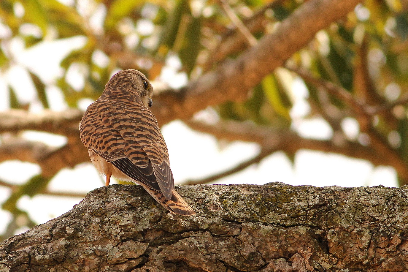 Taken in Kaggalipura.